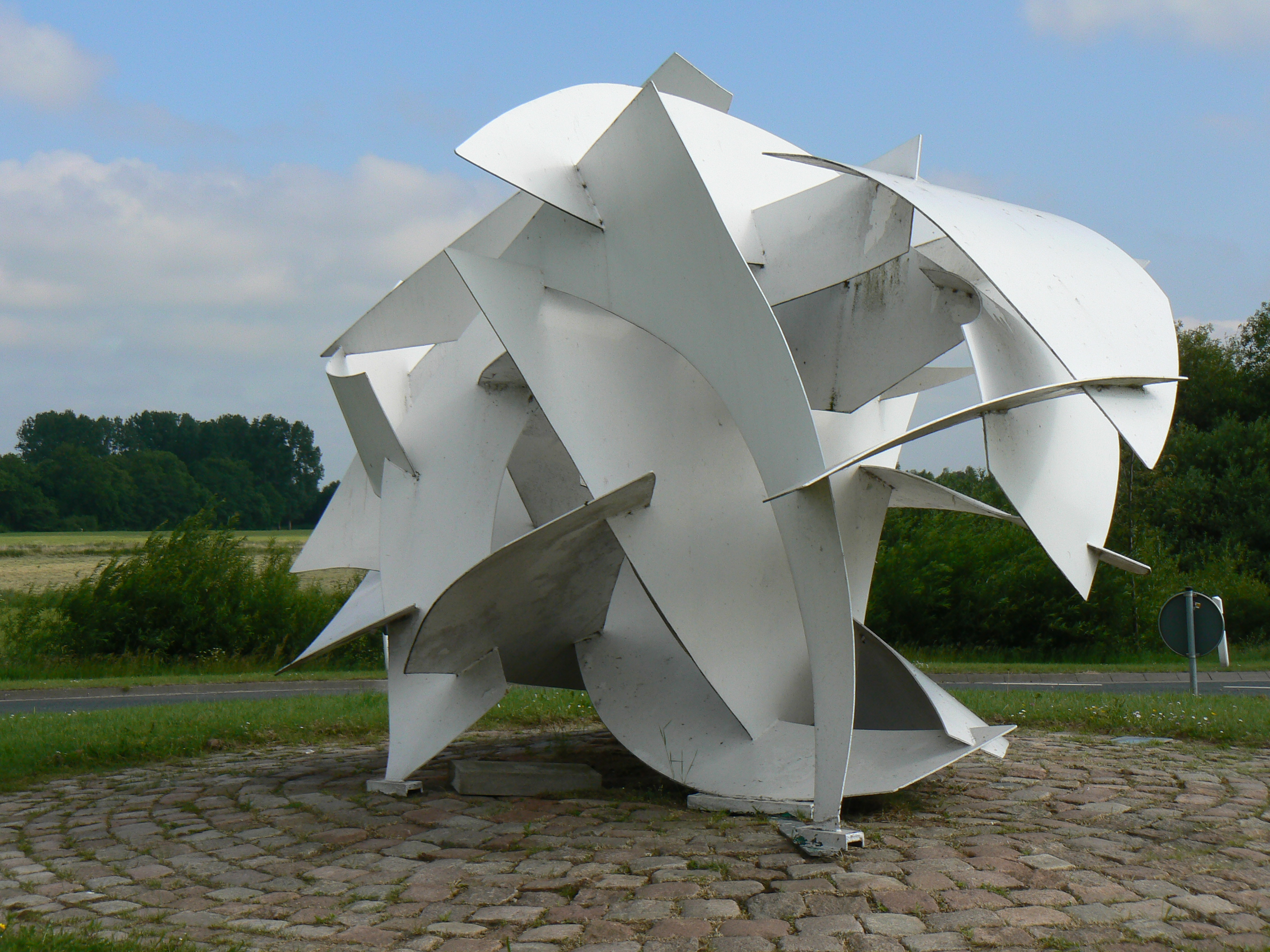 sculpture Andreas Freyer in Wittmund/Germany